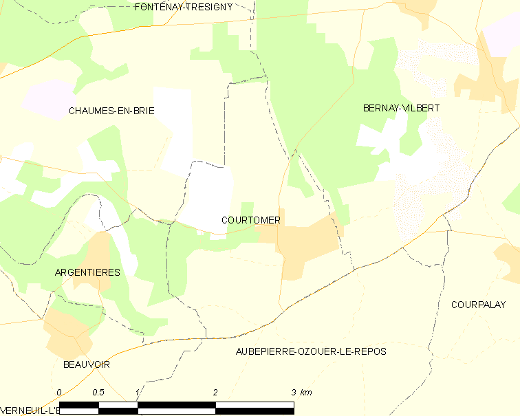 Map of French municipality Courtomer